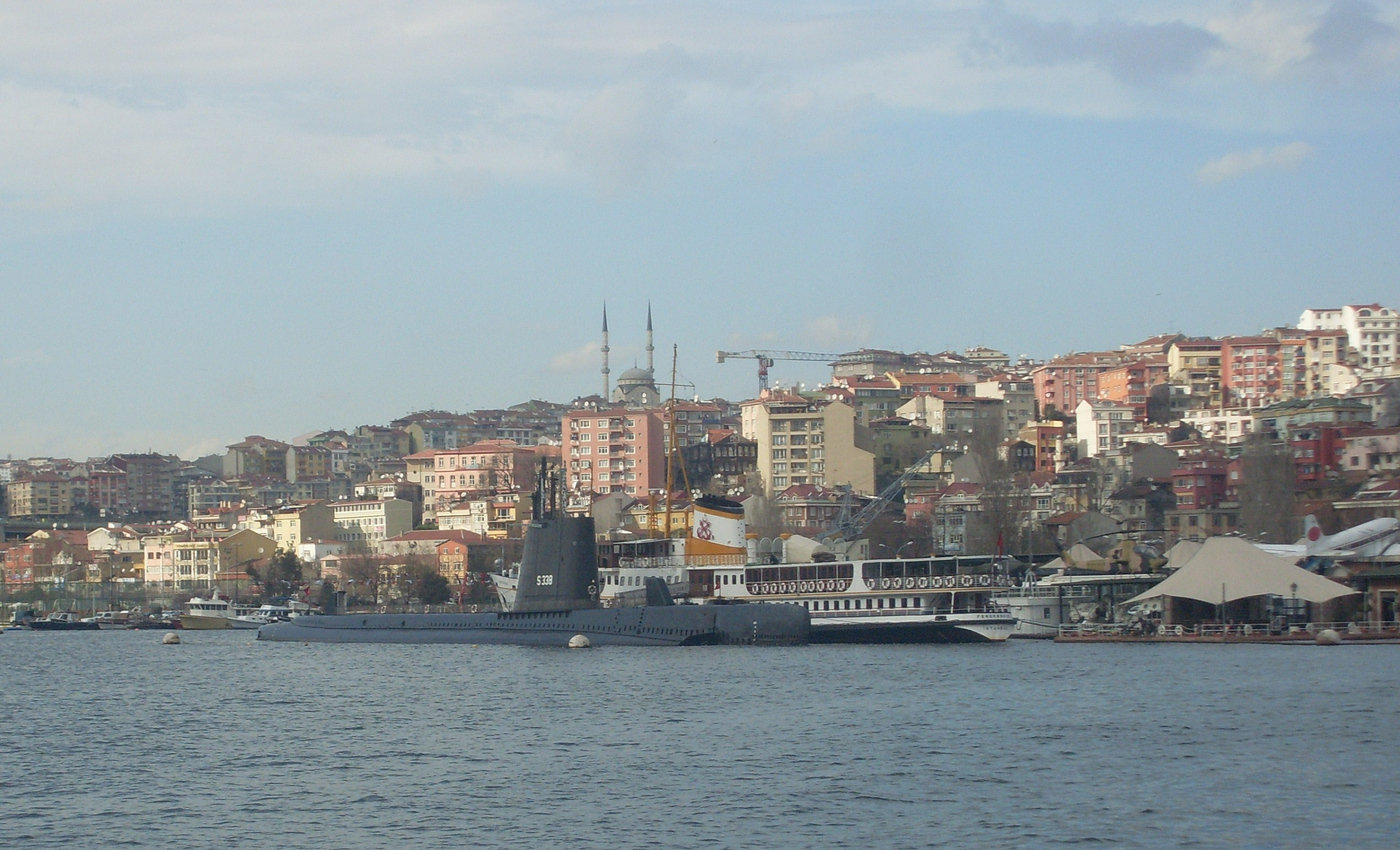 İstanbul - Hasköy, Beyoğlu - Mart 2013 - r1